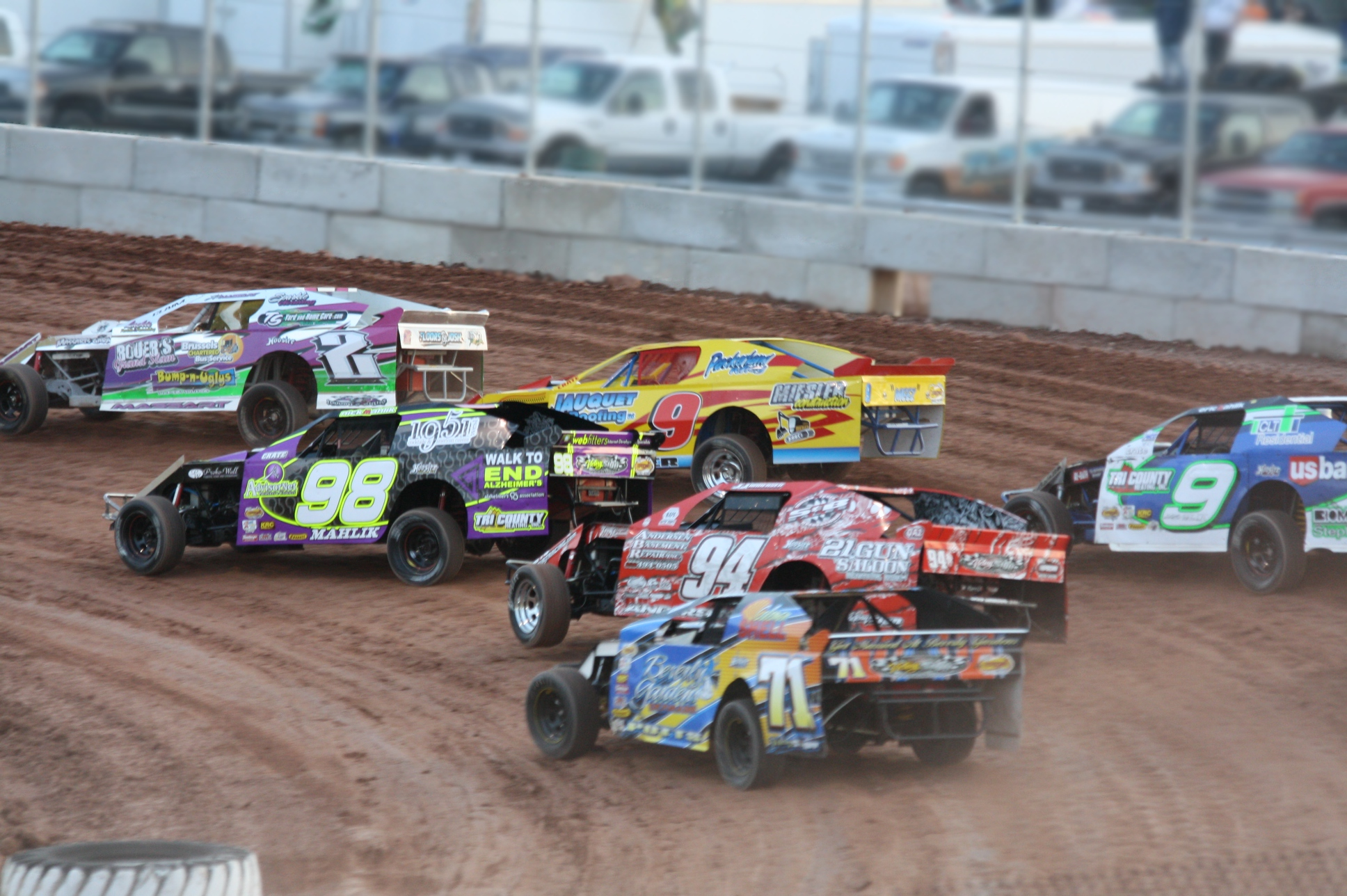 IMCA Northern Sport Modified racing at Luxemburg Speedway.